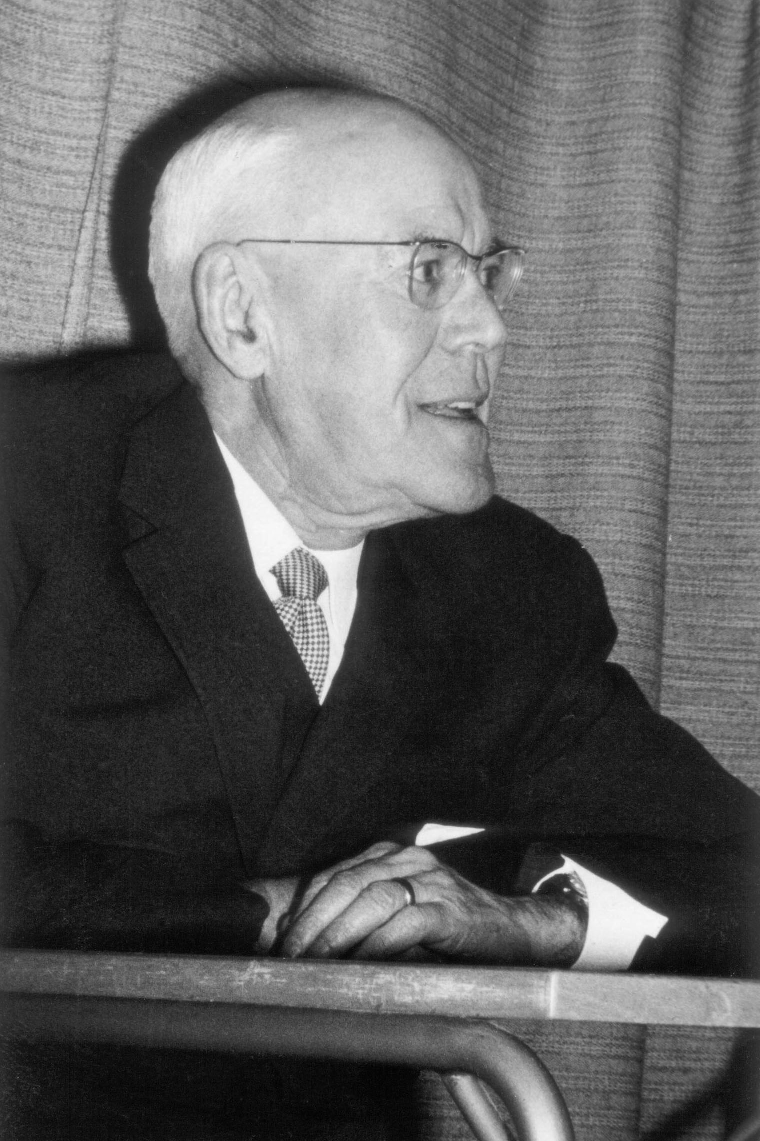 Photograph of Fredrik Borelius (1887-1973)